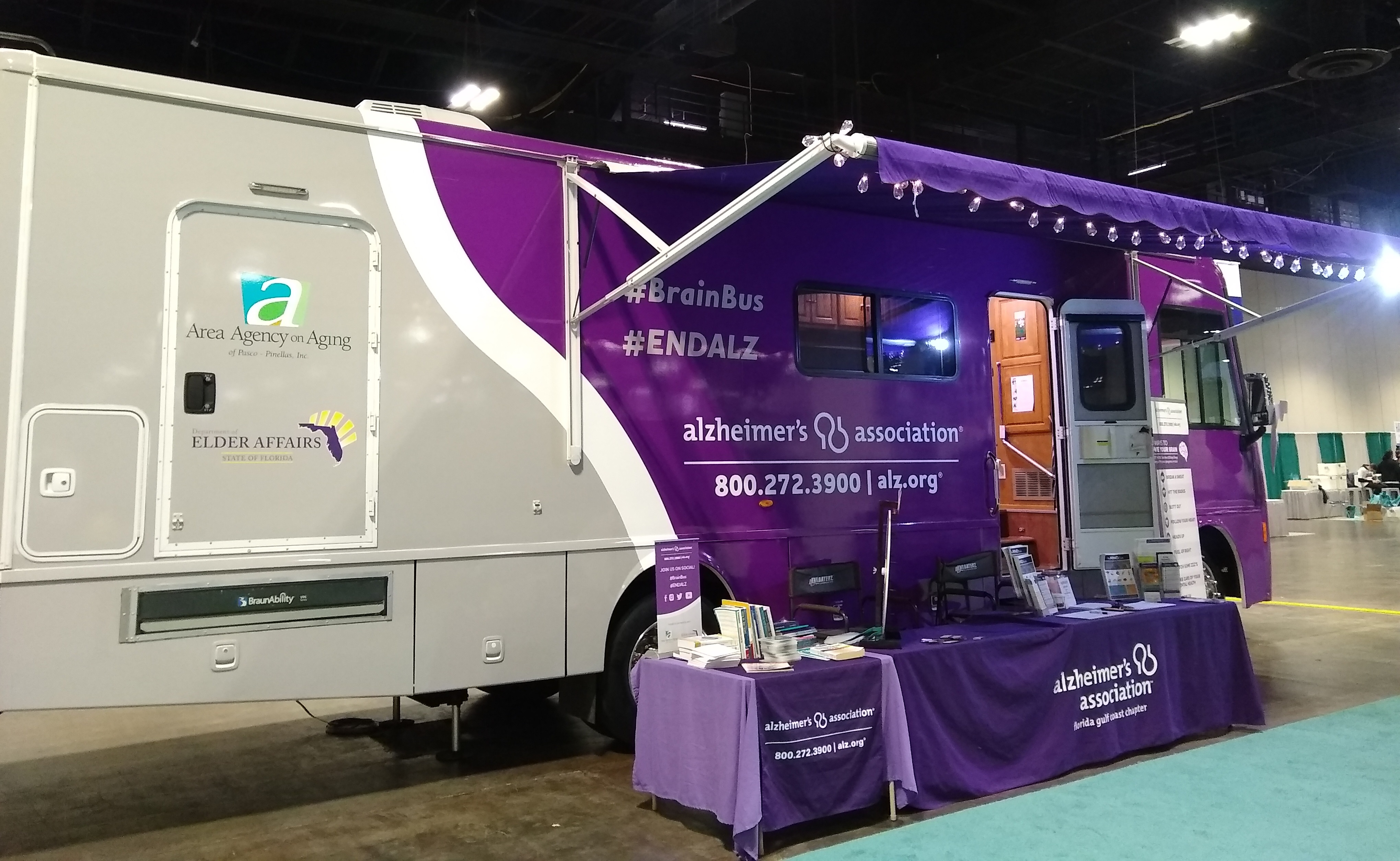 The Alzheimer's Association Brain Bus at the Gasparilla Distance Classic Expo in 2020.